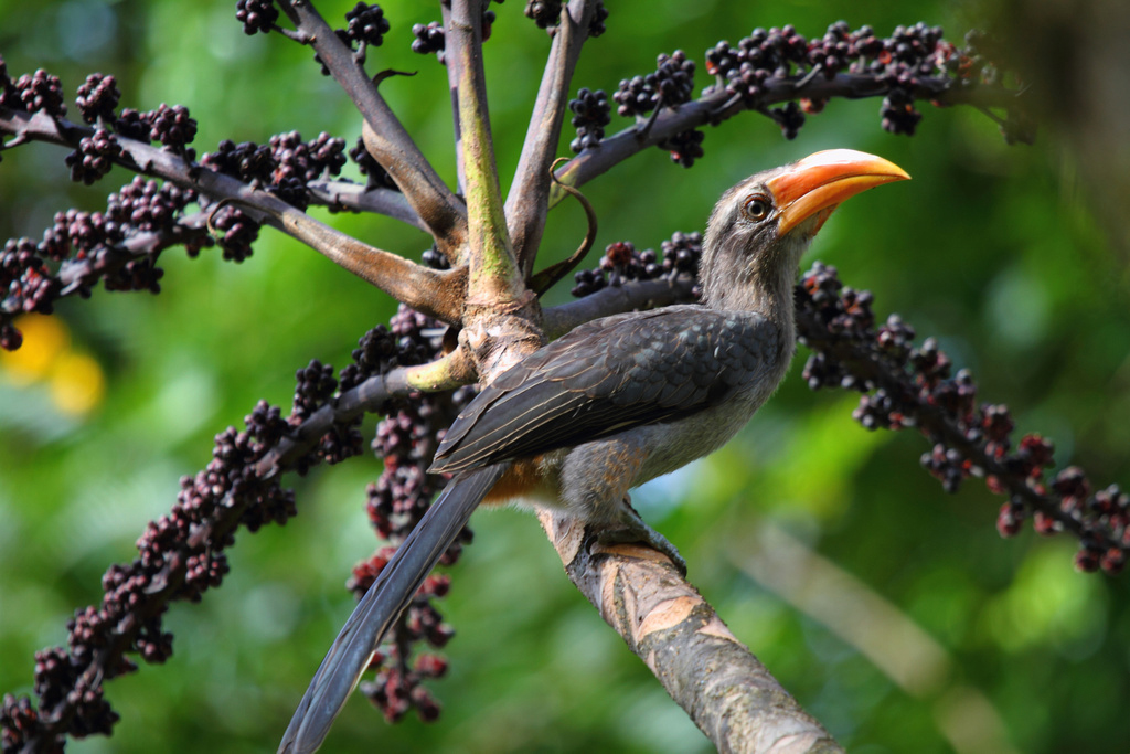 Grey Malabar Hornbill at Monica Garden Tea Bungalow, Valparai